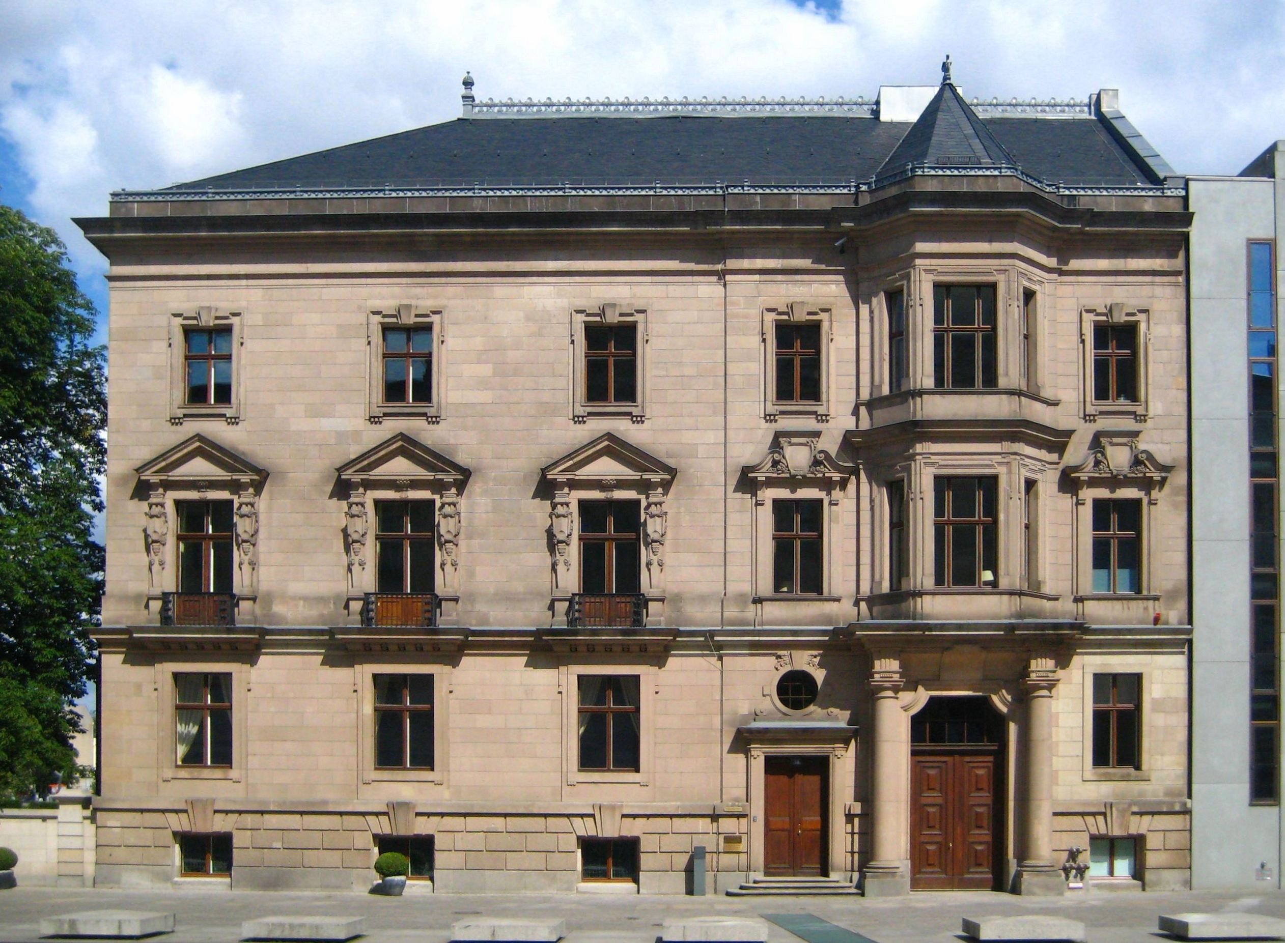 Palace of the President of the Reichstag (Reichstagspräsidentenpalais) in Berlin, west facade opposite the Reichstag, built 1899-1904 by Paul Wallot